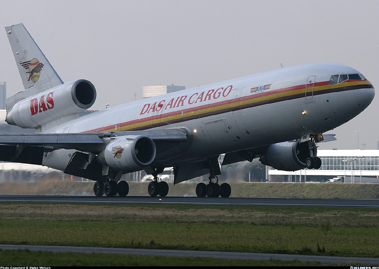 DAS Air Cargo McDonnell Douglas DC-10-30(F) (5X-JOE) at Amsterdam (Schiphol) Airport, the Netherlands, on February 28th 2004. COPYRIGHT: Antonio Martin has permission to use this picture but copyright remains with Stefan Welsch. PREPARED BY Adrian Pingstone, at Antonio's request, in April 2004.